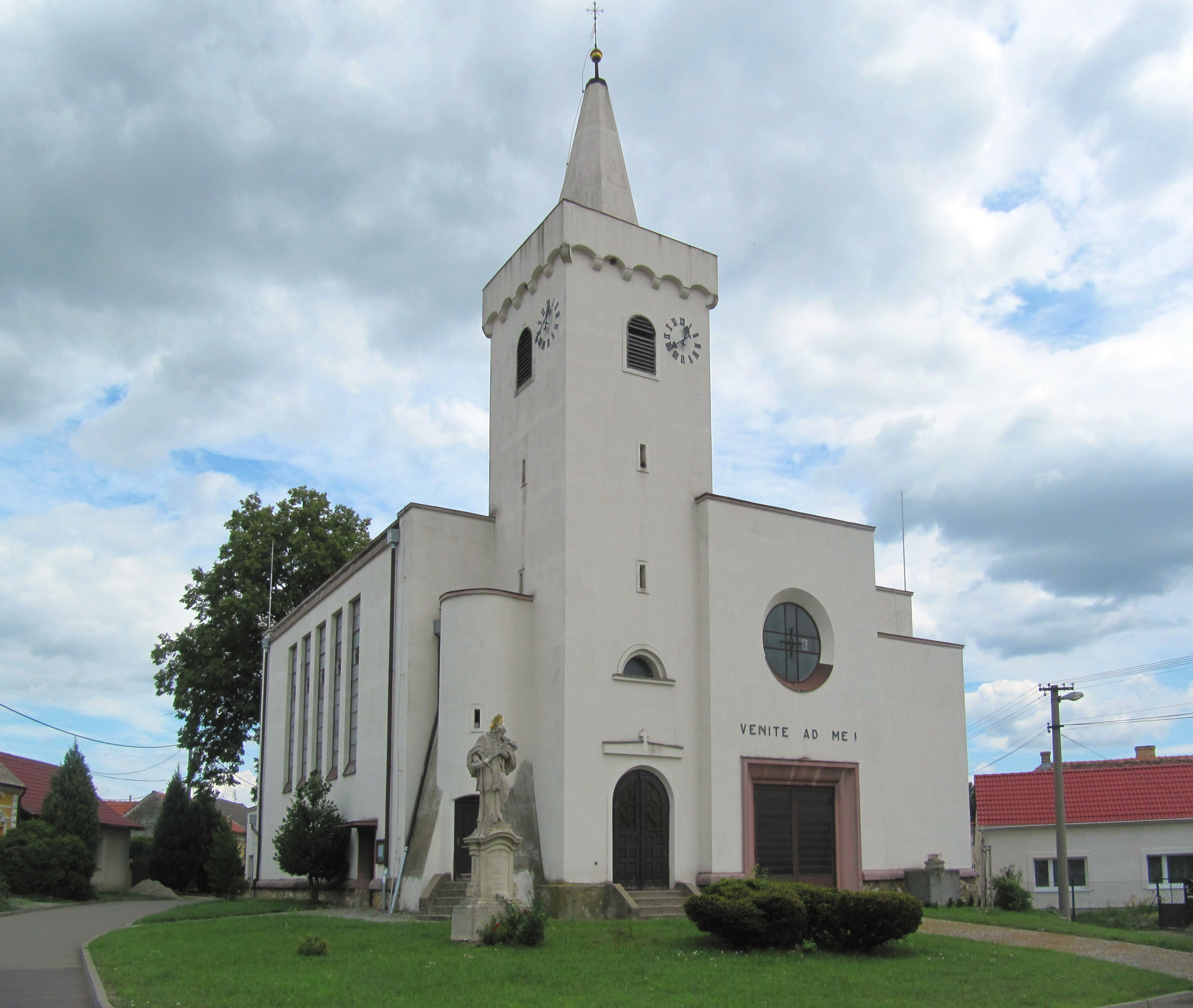 Jevišovka in Břeclav District, Czech Republic. Church of the Holy Kunigunde, original church was rebuilt in the years 1929-1932 in the functionalist style, the Gothic tower (the rest of the original building) and the Baroque statue of St. John of Nepomuk.